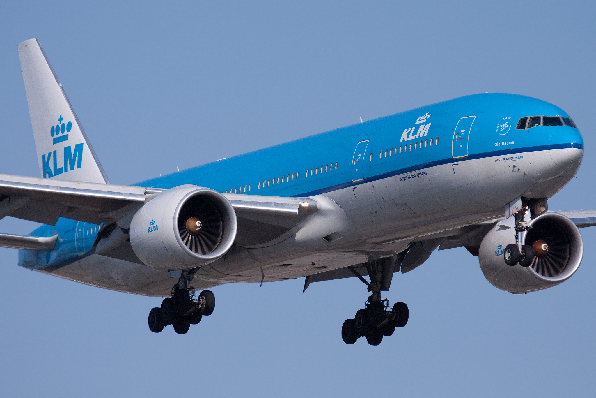 KLM Boeing 777-200ER landing at Montréal-Pierre Elliott Trudeau International Airport in September 2009.